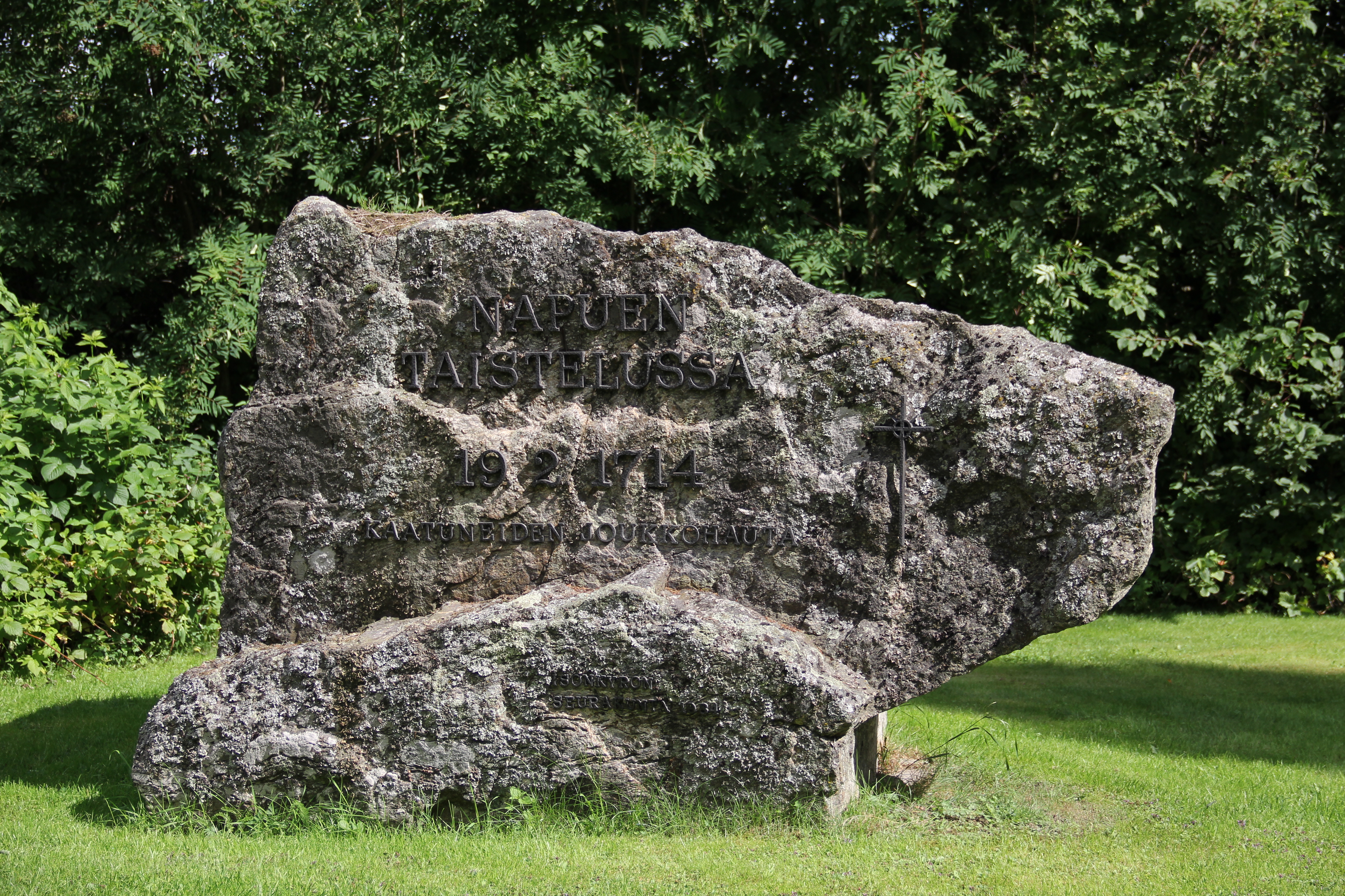 Battle of Storkyrö (or Battle of Napue), mass grave memorial stone, Isokyrö old church graveyard, Isokyrö, Finland. - Text (in finnish): "Mass grave of those killed in action at Battle of Napue 19th February 1714. Unveiled in 1984 by Isokyrö parish.